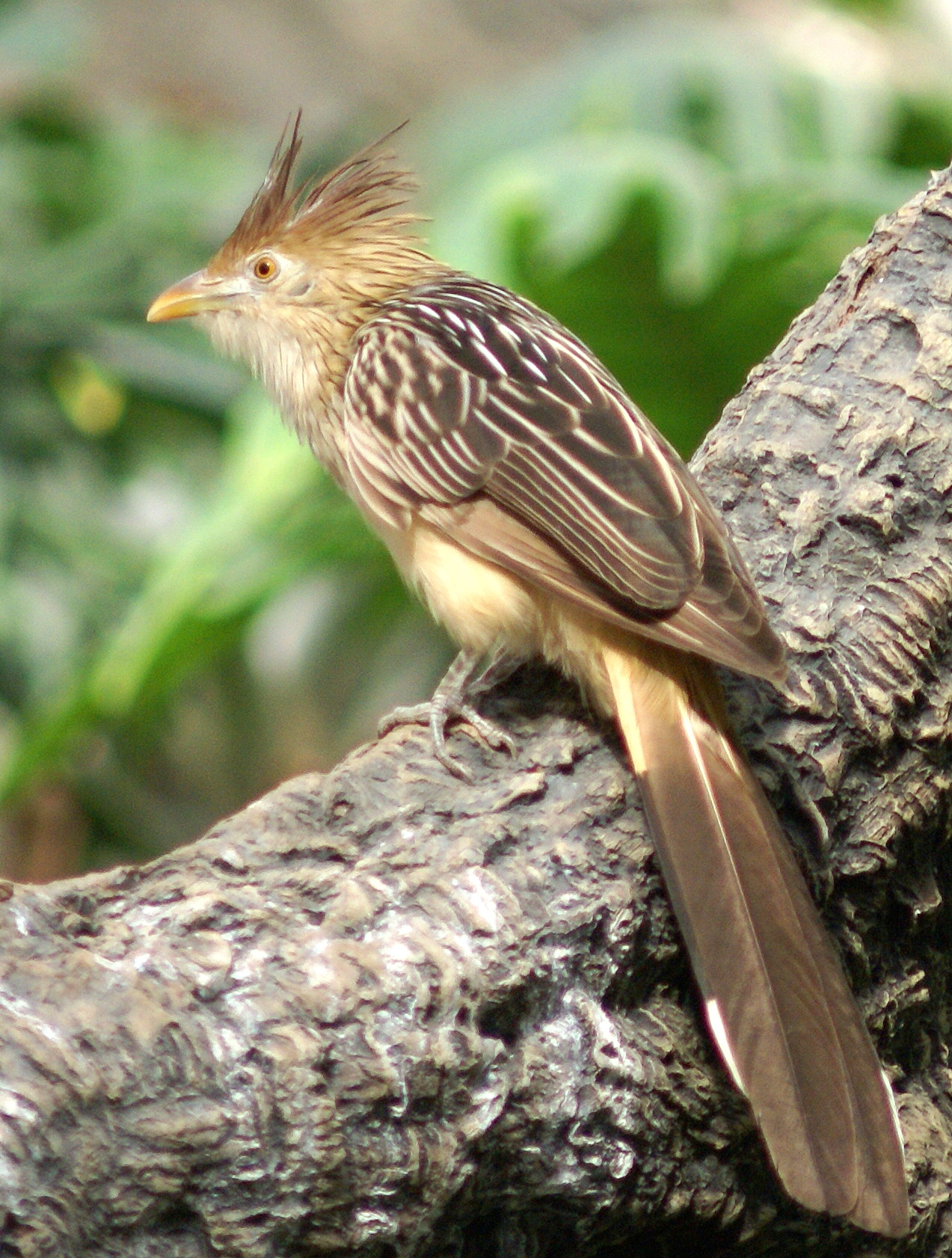 Photo by author, taken at the National Zoo in Washington, D.C.